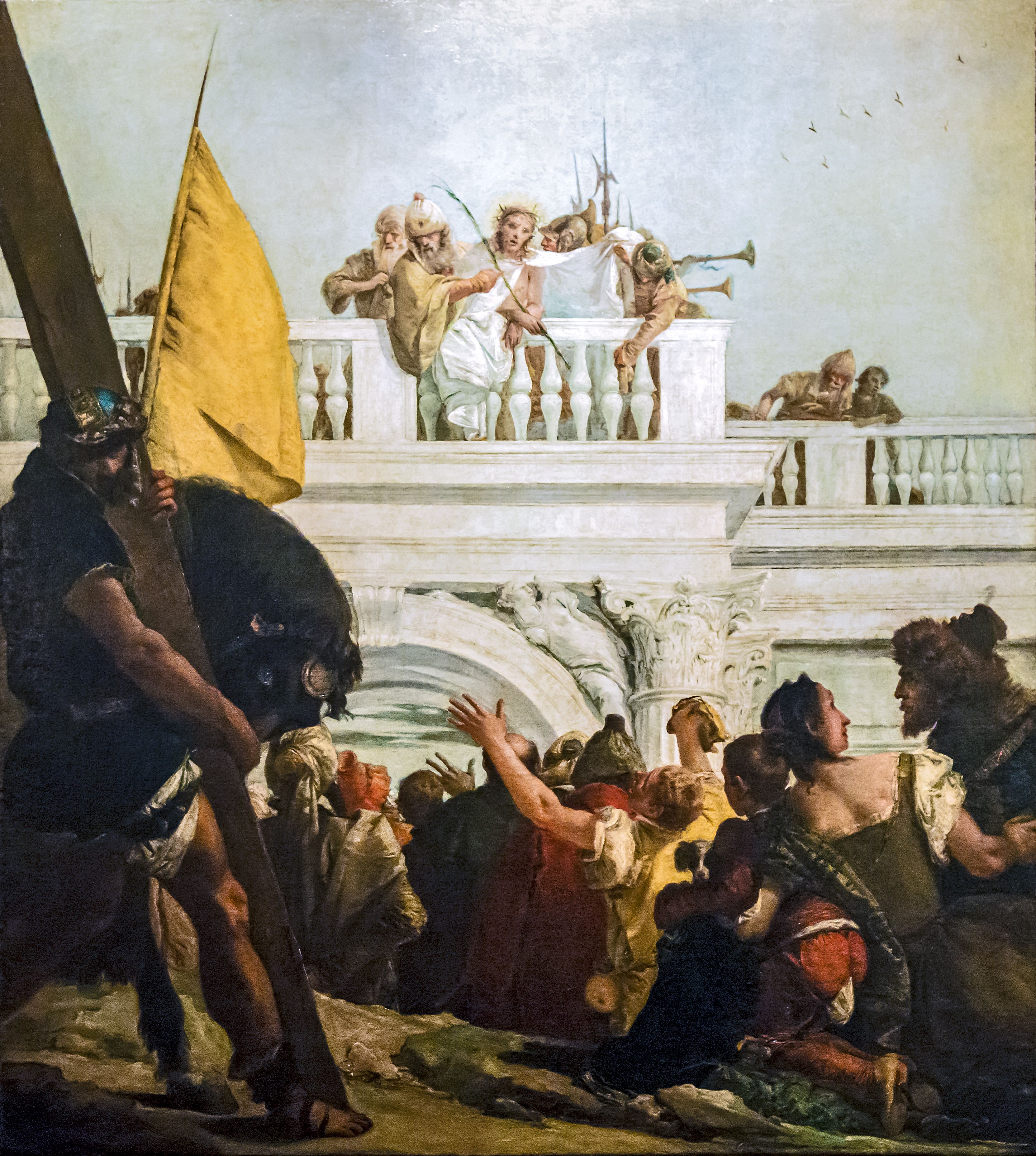 San Polo (church) - Oratory of the Crucifix - VIA CRUCIS I - Jesus is sentenced to death by Giandomenico Tiepolo. Oil on canvas (1745 -1749).